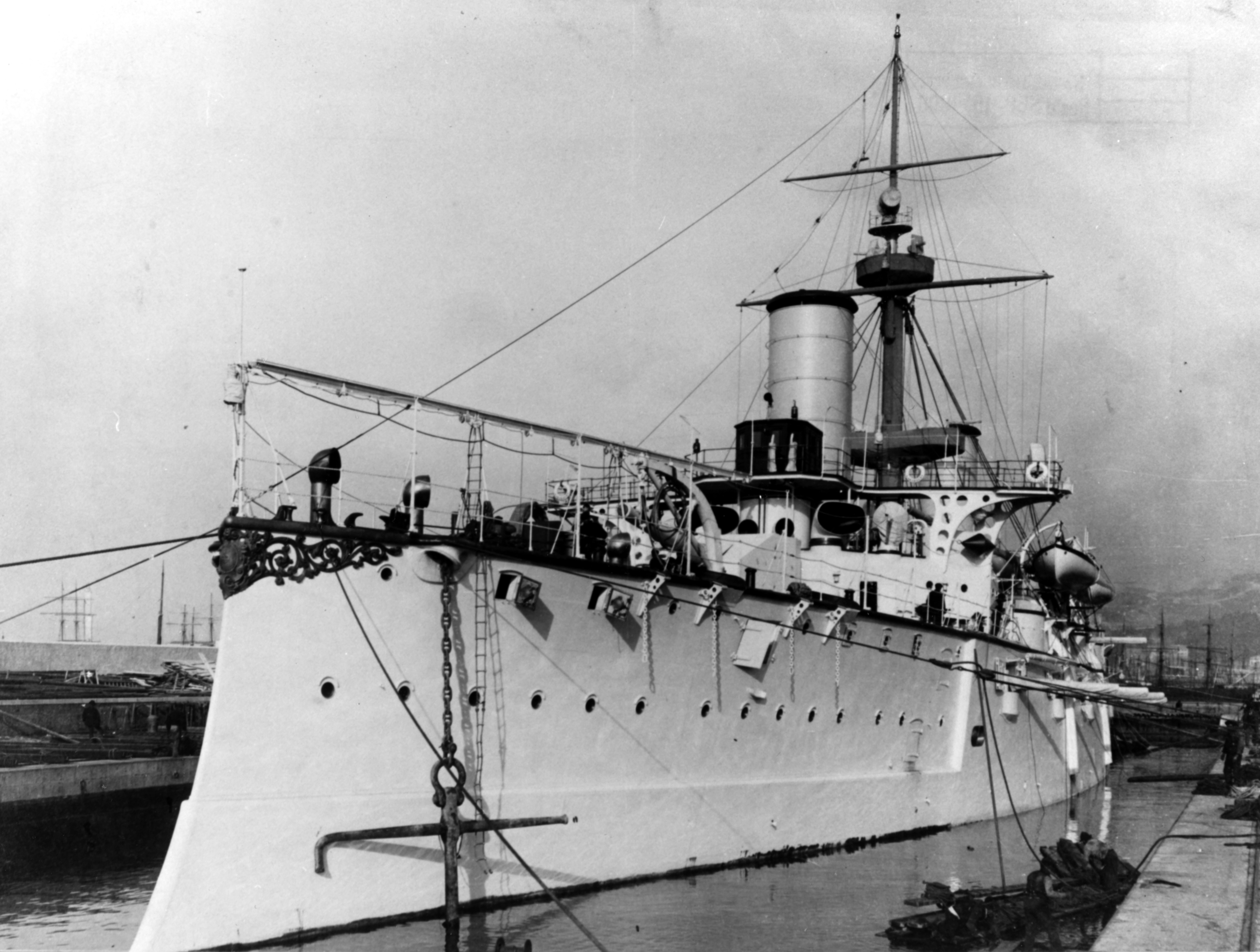 Title: GARIBALDI (Italian Armored Cruiser, 1895-1935) Caption: Photographed by A. Noack of Genoa, probably at Naples or Genoa prior to her departure for Argentina. Note that the ship does not appear to be flying any flags.)